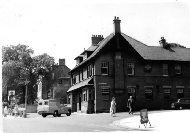 Monkseaton Arms, Monkseaton (1970) A photo of the Monkseaton Arms in Monkseaton, taken in 1970. Shows my Grandfather John William (Billy) Potts, a regular patron of said establishment! Partial remains of the (very) old brewery can be seen behind the pub.